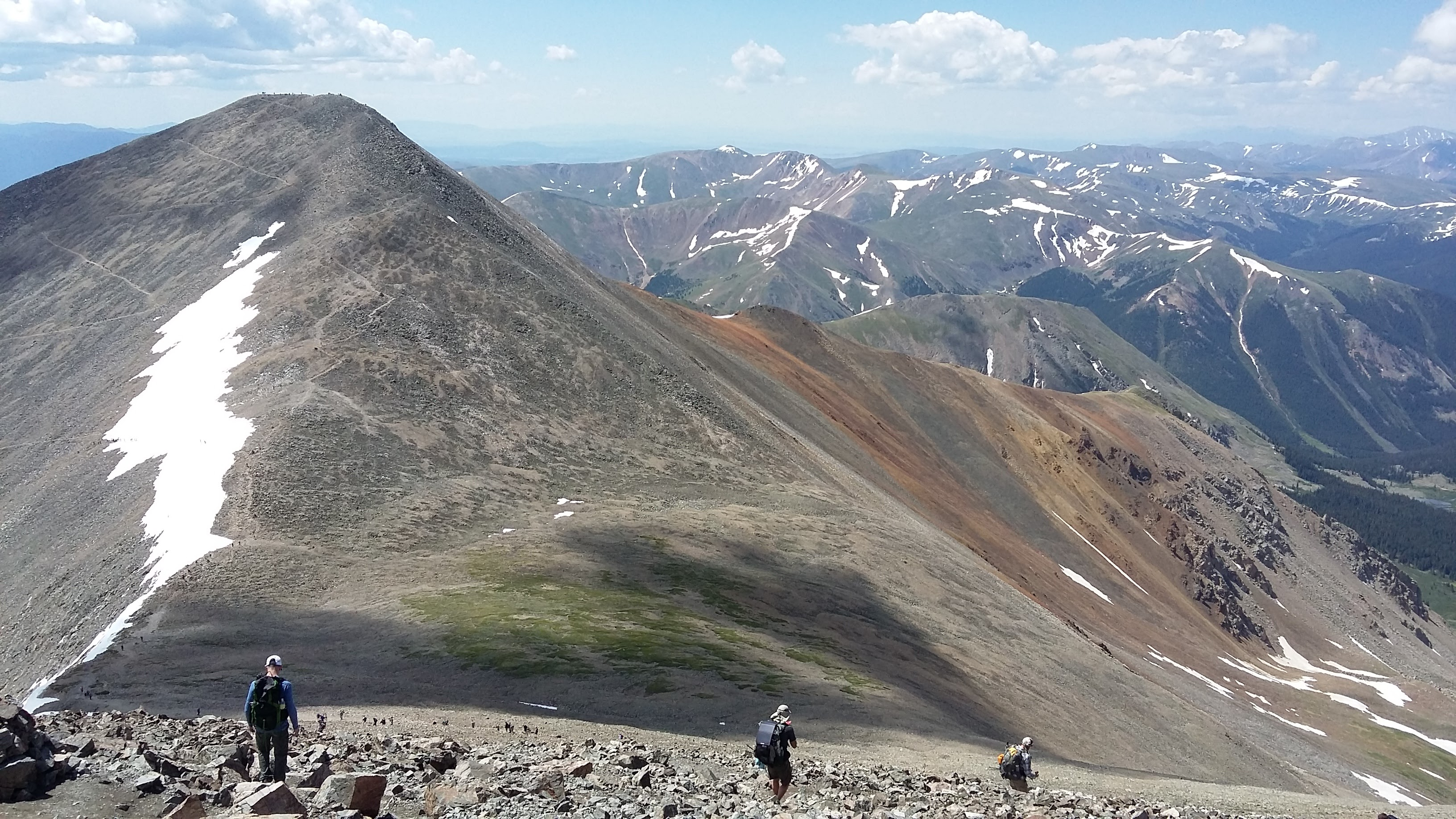 Continental Divide Trail, Torreys to Grays